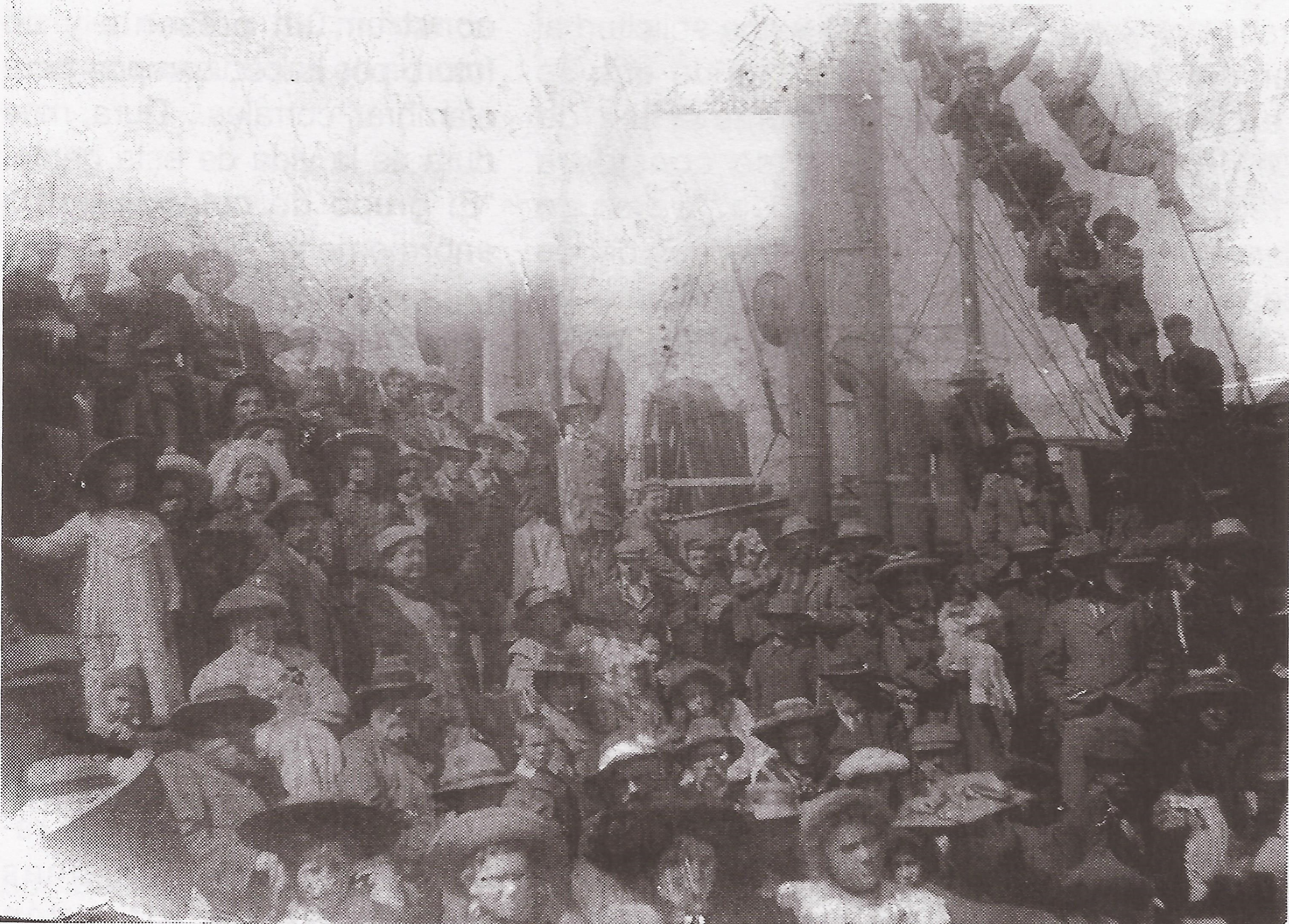 Boer settlers on the ship Pampa, travelling from South Africa to Buenos Aires, Argentina